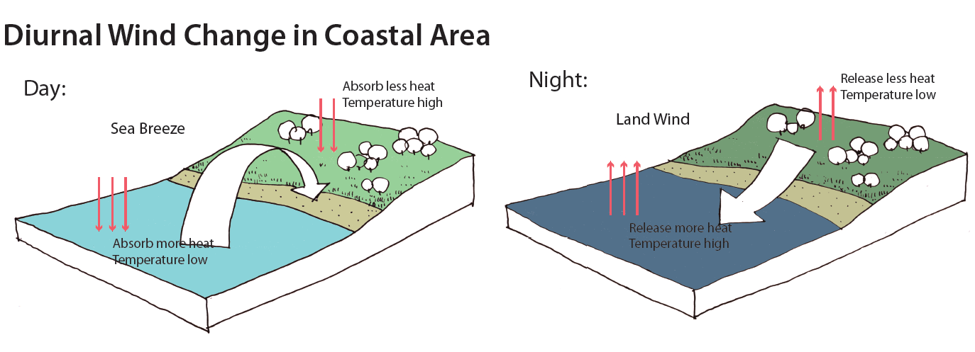 Diurnal wind change in coastal regions